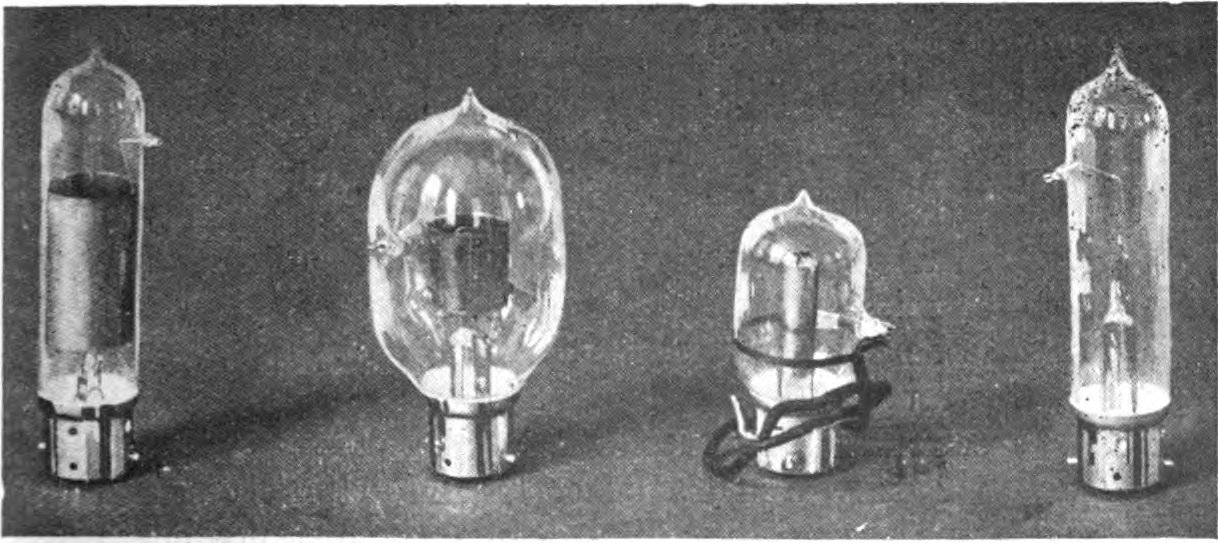 Early Fleming valves. Shows several different designs used by Fleming. The Fleming valve, invented in 1904 by John Ambrose Fleming, as a detector for radio waves in early radio receivers, was the first thermionic diode and the first vacuum tube. It consisted of an evacuated glass bulb containing two electrodes: a cathode in the form of a tantalum wire filament, and a anode (plate) consisting of a sheet metal cylinder surrounding the filament. A separate current through the filament heated it red-hot, releasing electrons into the vacuum of the tube. The AC voltage to be rectified was applied between anode and filament. When the anode is positive, the electrons from the filament are attracted to it and a current flows through the tube. When the anode is negative the electrons are not attracted so no current flows.